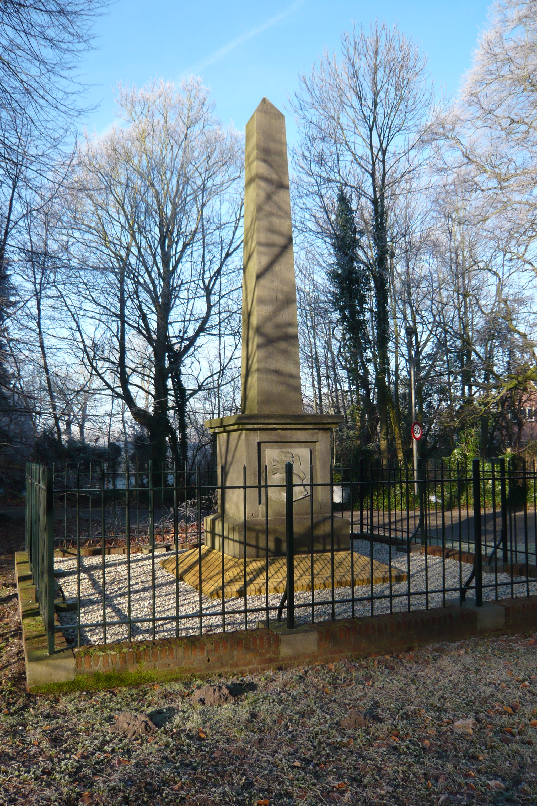 Monument 'De Naald' in Heemstede, at the corner of the Manpadslaan and Herenweg in Heemstede, commemorating two battles that (supposedly) took place at this site in 1104 and again at 1573. Monument was erected in 1817 when the owner David Jacob van Lennep of 'Huis te Manpad' was in the Haarlem council. The monument is located on the corner of property belonging to 'Huis te Manpad'. The son of David, poet Jacob van Lennep, was present when the monument was placed and later wrote a poem about it. |Source: own work